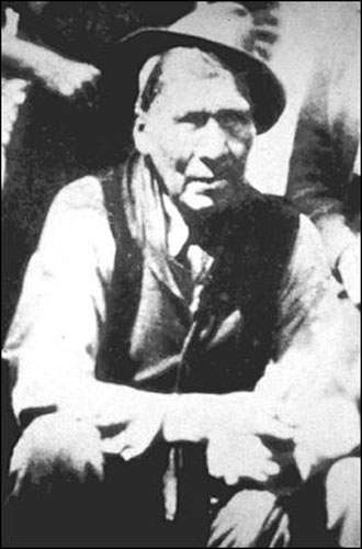 Mattie Mitchell, ca. 1920. Mitchell was the first person to bring examples of mineral deposits from the Buchans area to the Anglo-Newfoundland Development Company.